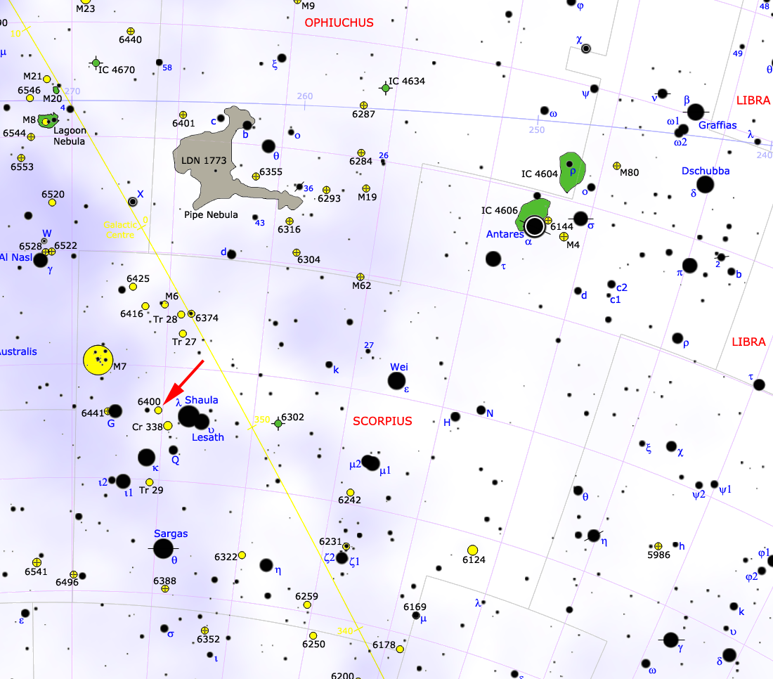 Ma of NGC 6400